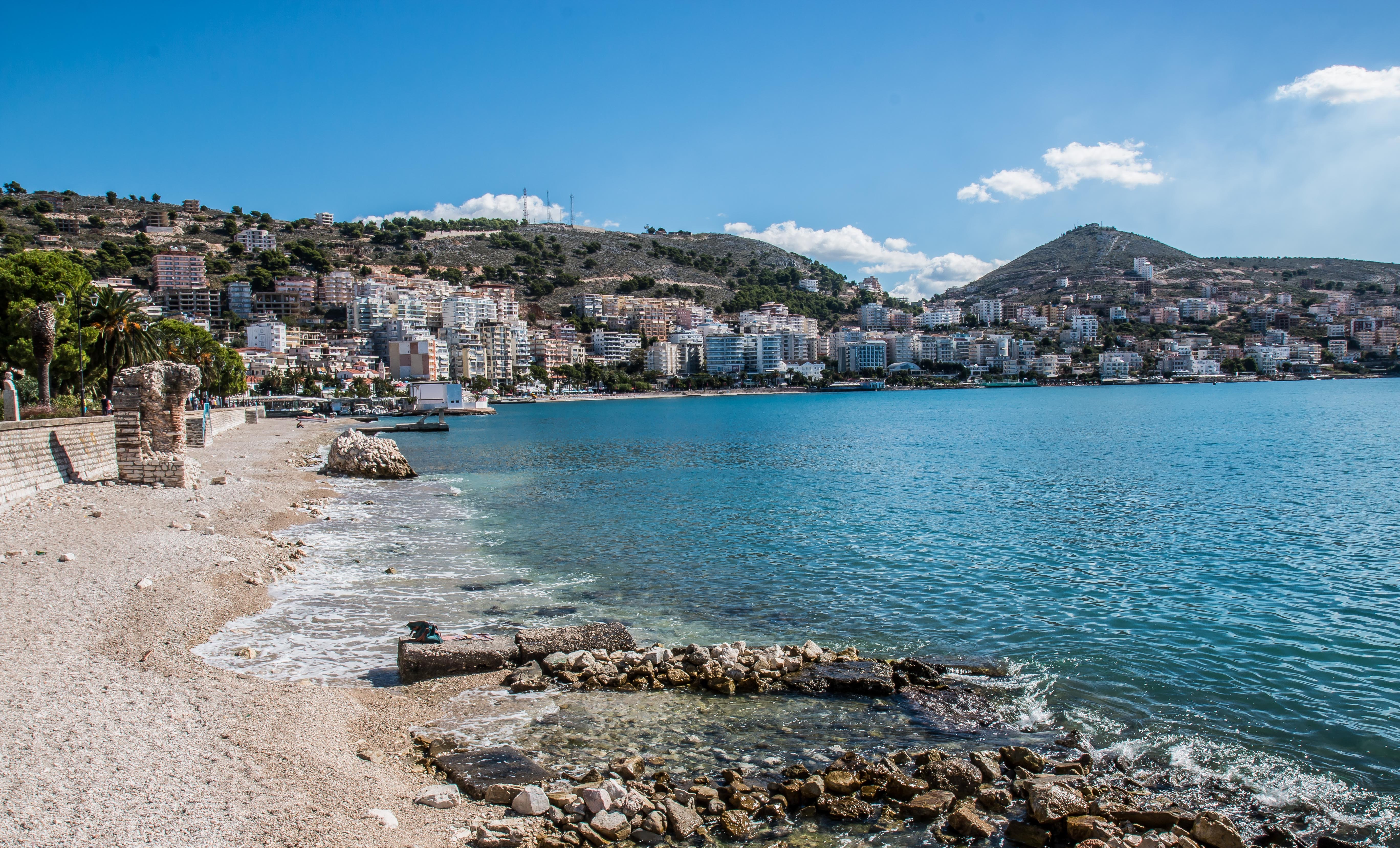 City of Saranda, Albania